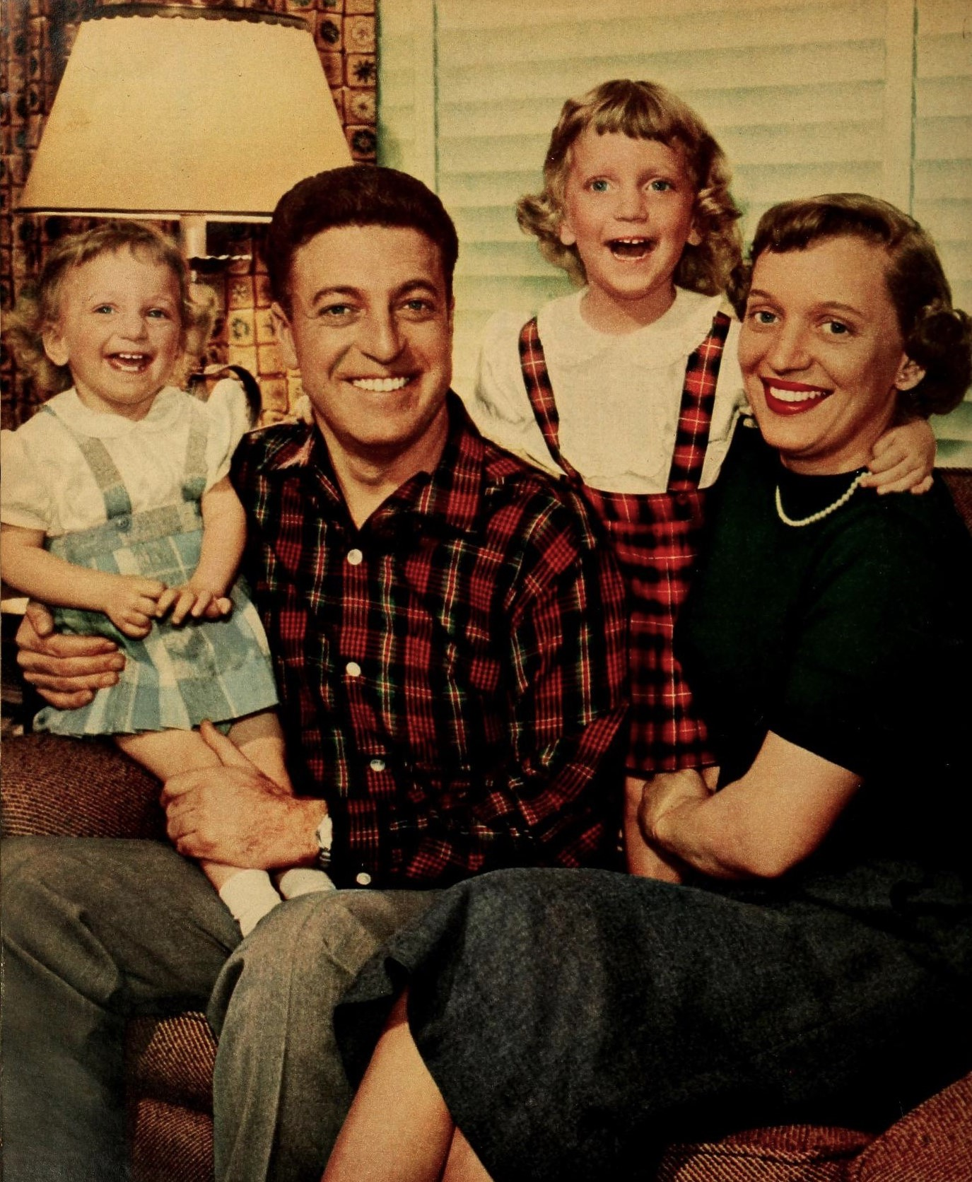 Nat Polen with Debra Jane, Wendy Ann, and his wife Nancy Polen, 1953